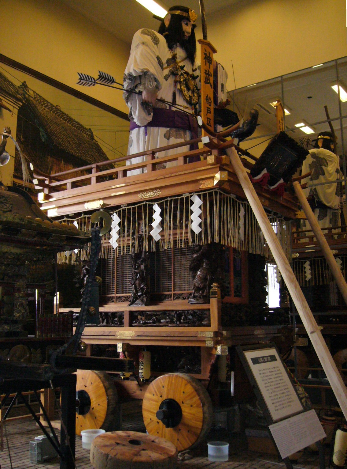 Exhibition on the ground floor at the Suigo Sawara Dashi Kaikan museum in Katori City, Chiba Prefecture, Japan